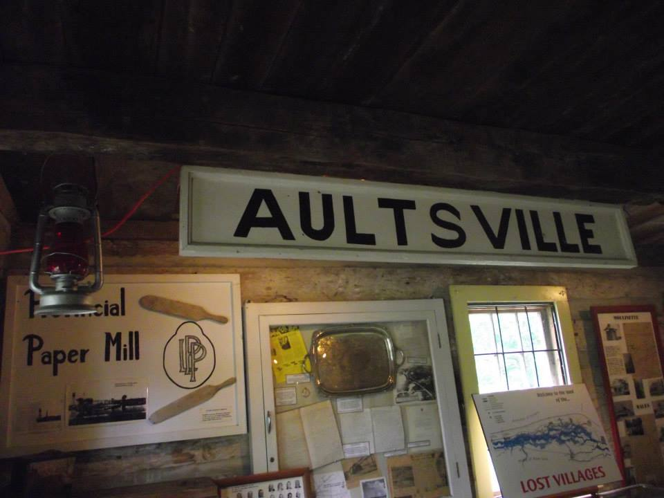 This image, taken at the Lost Villages Museum is of an old sign indicating the location of Aultsville, Ontario.